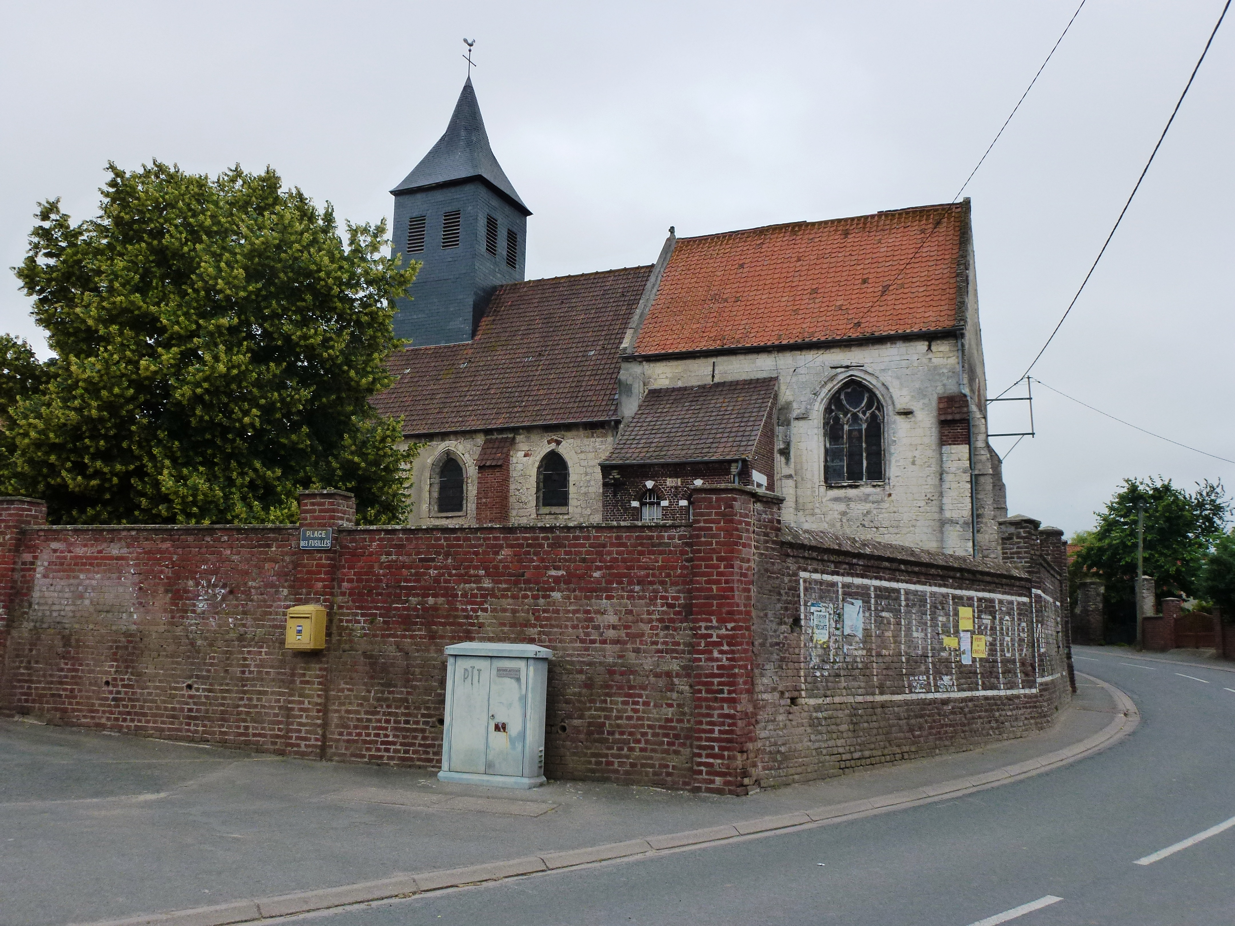 Quernes (Pas-de-Calais) église